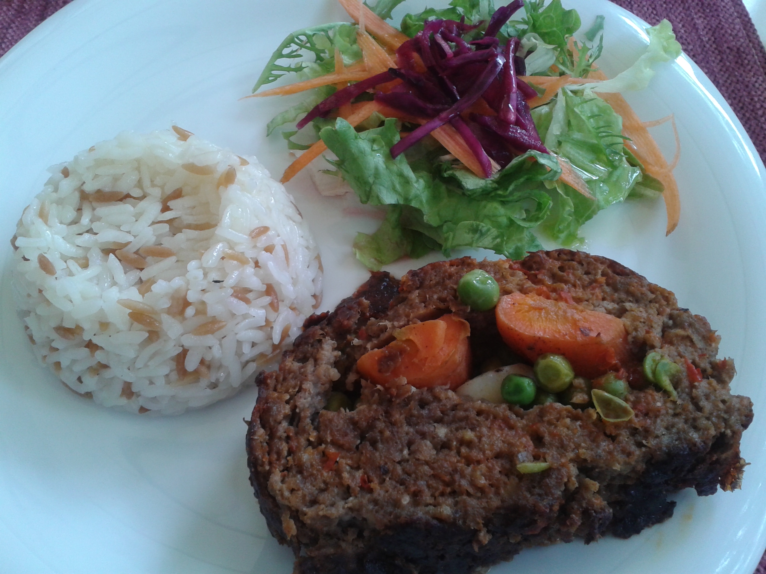 "Dalyan köfte" with "pilav" (Turkish pilaf) and a little salad. Normally (or generally) "dalyan köfte" is served with mashed potatoes, but this restaurant in Ankara has made a change. The rice was delicious -like the köfte itself- therefore possibly nobody protested.